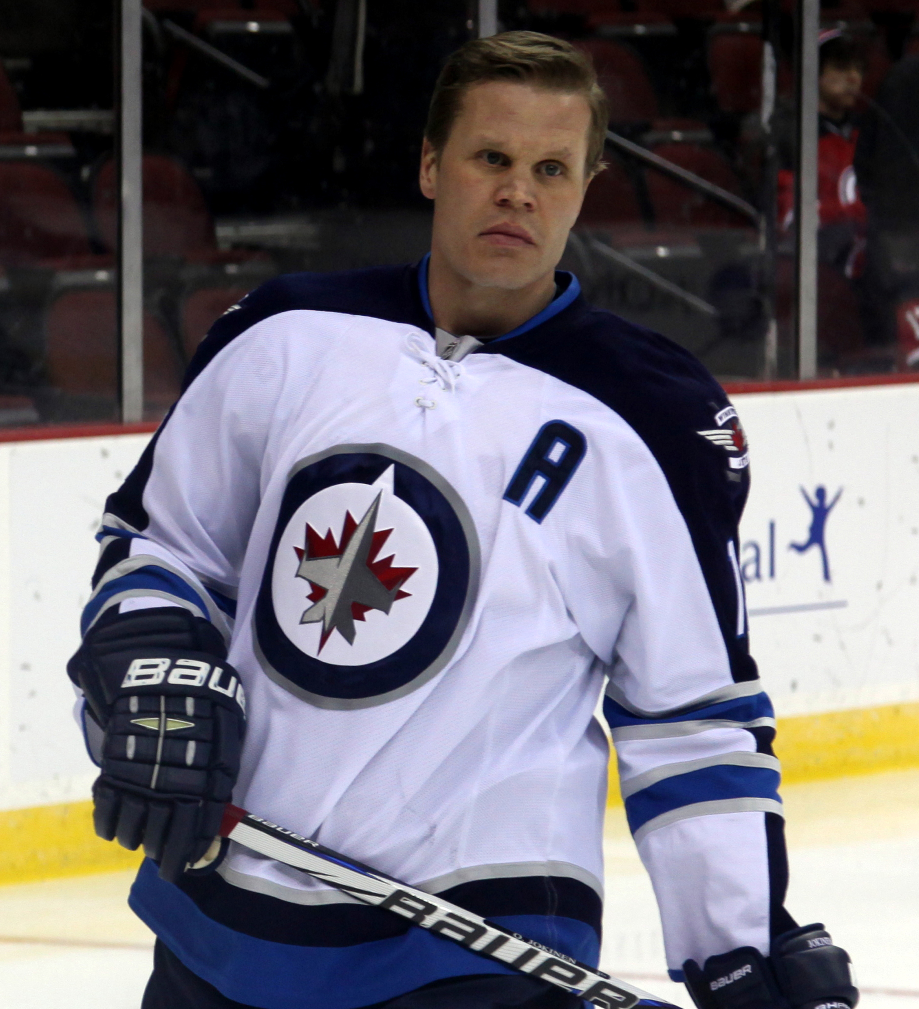 Olli Jokinen in 2013.